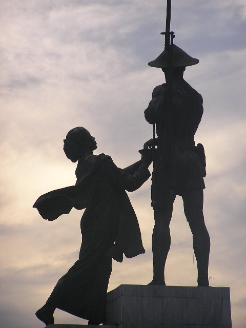 A statue in Jakarta, Indonesia, known locally as "Tugu Tani" ('farmer's monument').